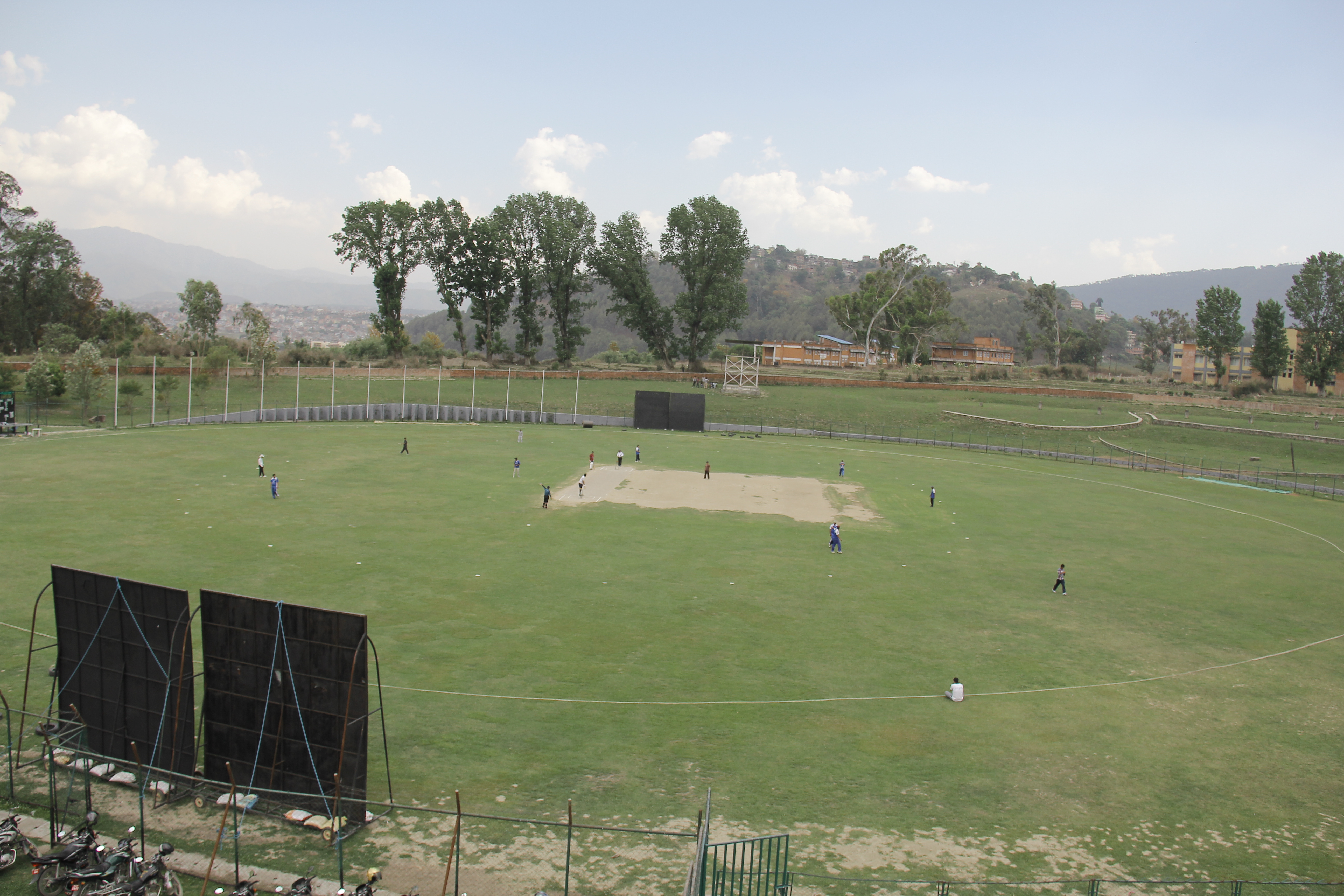 Kirtipur Cricket Ground, Kathmandu